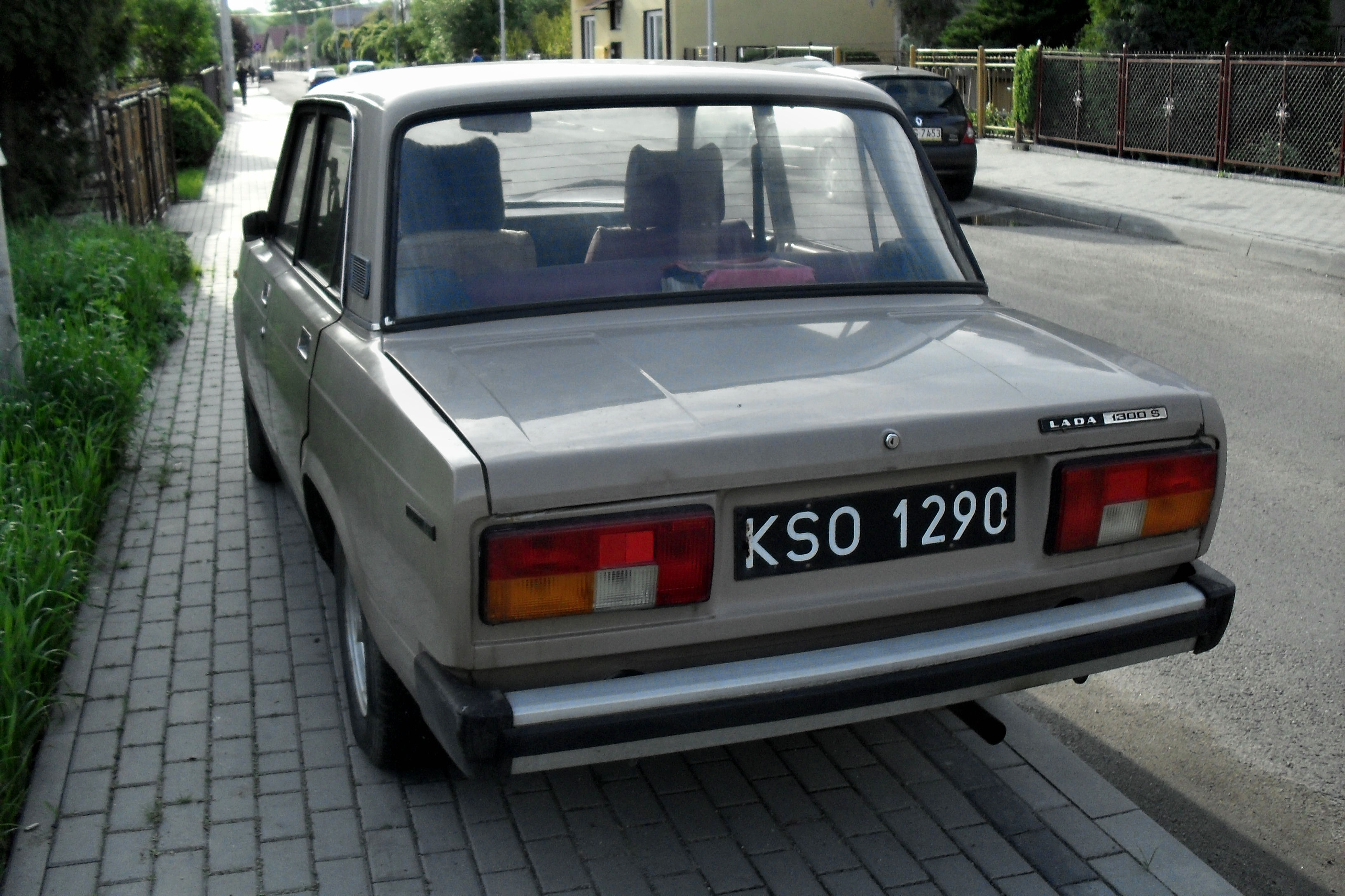 Lada 1300 (2107) seen in Jasło, Poland.